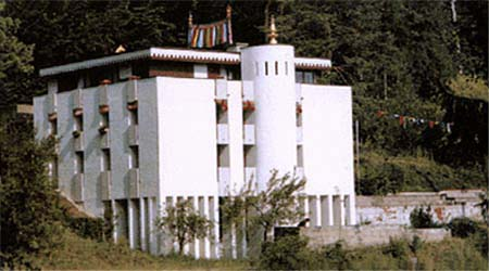 Zell-Rikon (Switzerland): Tibetan monastery Tibet Institute Rikon.